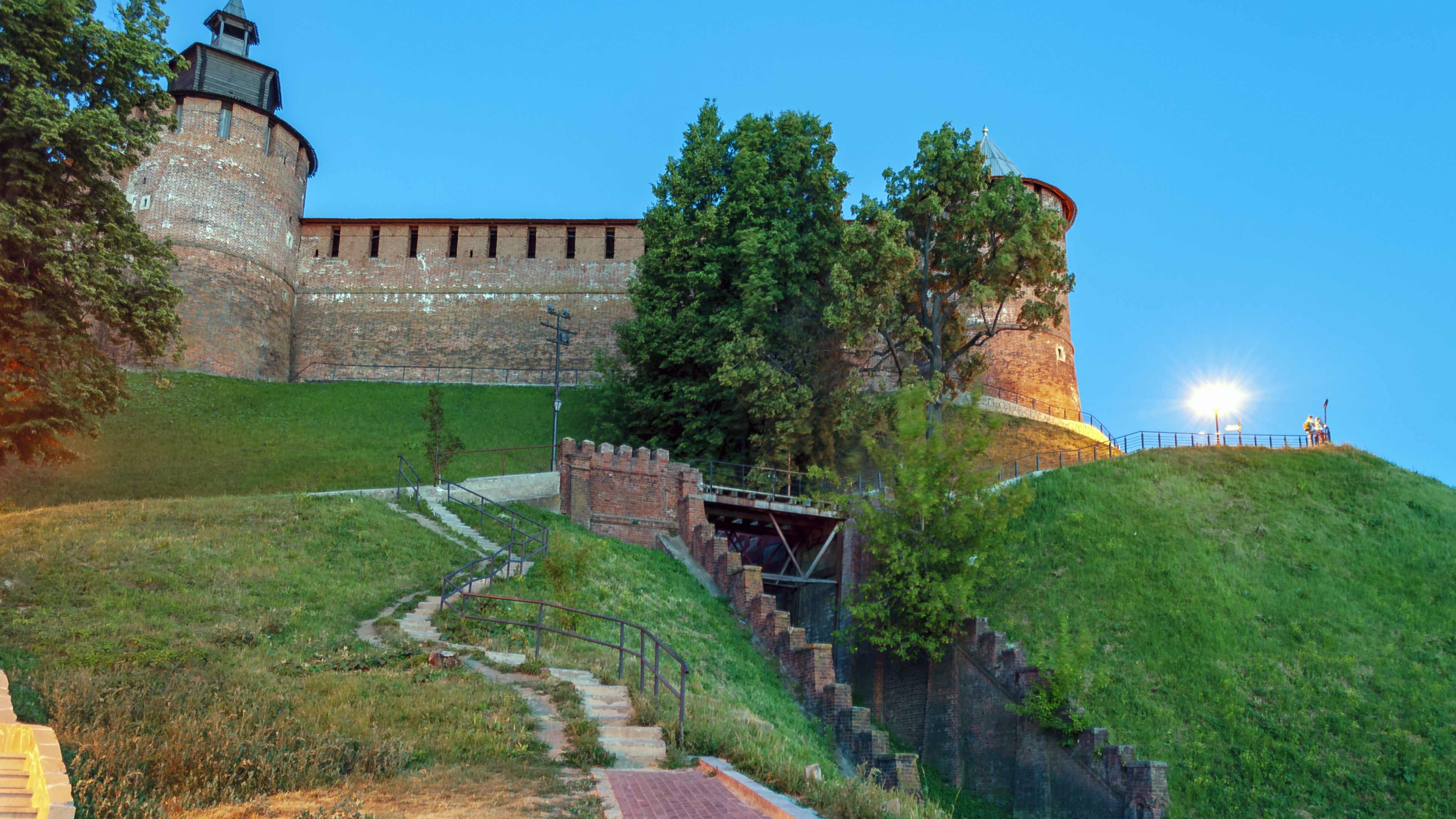 The ruins of the Nizhny Novgorod funicular (elevator)